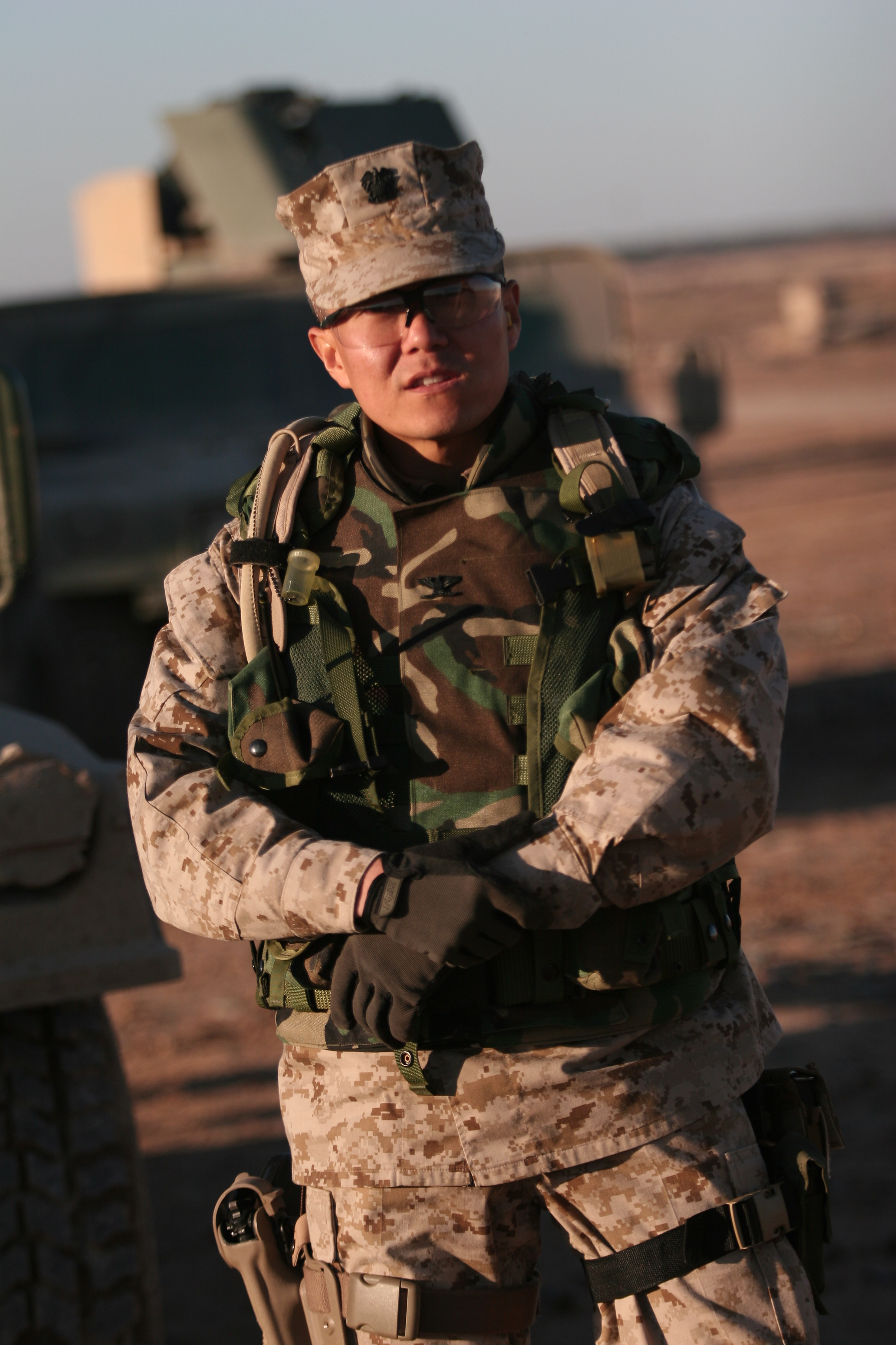 Photograph of Dr. Peter Rhee during the Iraq War.